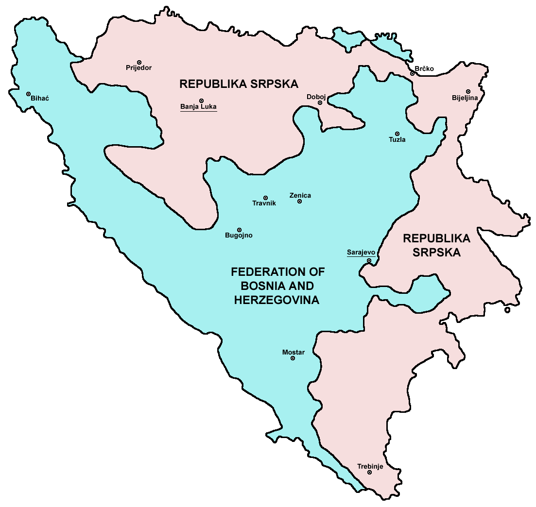 Political division of Bosnia and Herzegovina in 1995, after Dayton Agreement.Srpskohrvatski / српскохрватски: Politička podela Bosne i Hercegovine 1995. godine, posle Dejtonskog sporazuma.